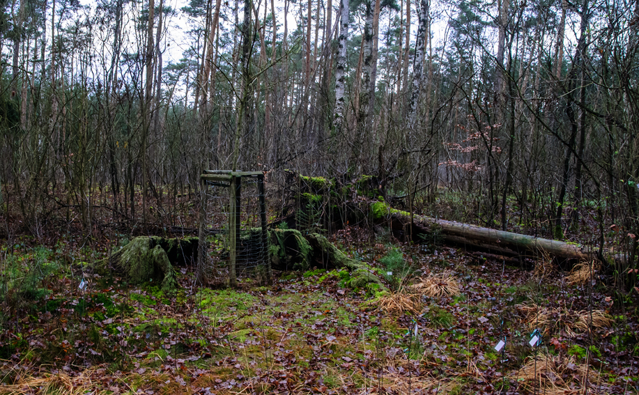 Reforestation of the former mother oak (tree in the coat of arms)